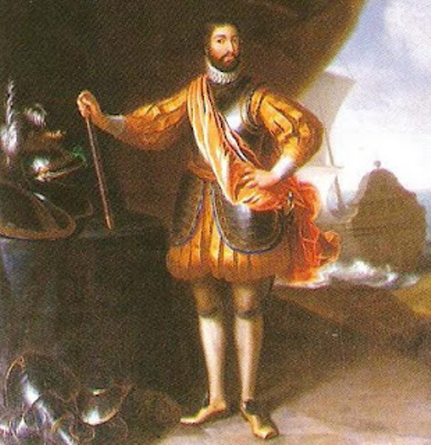 duque